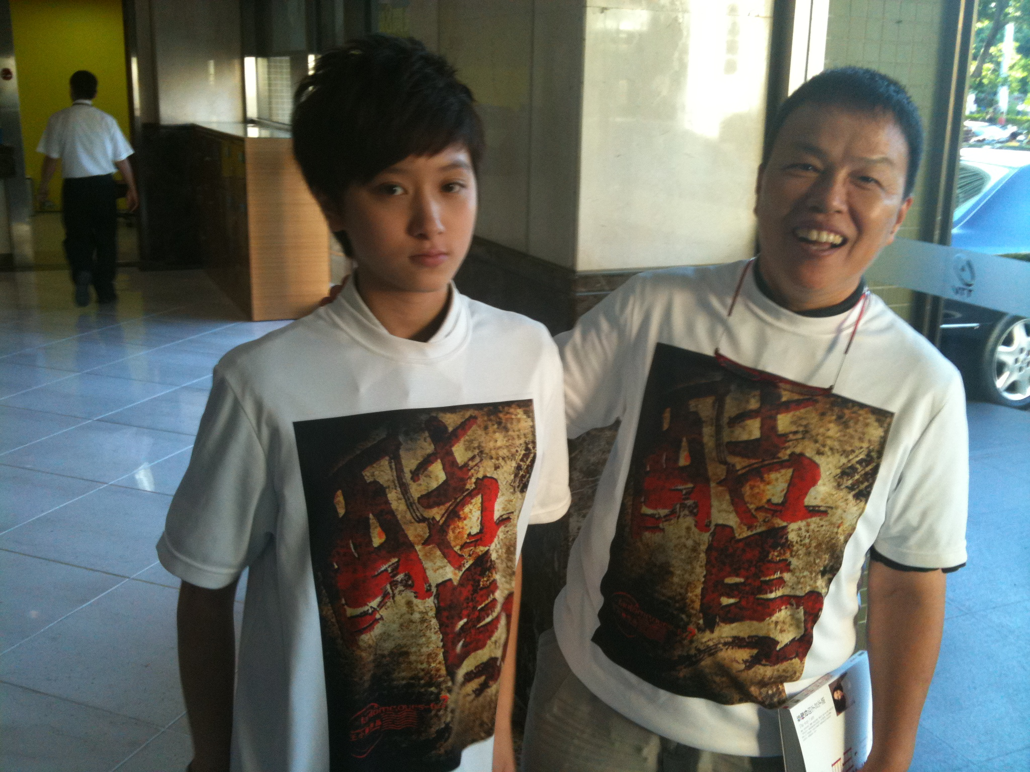 The director Wang Hsiao-ti (Chinese: 王小棣, Pinyin:Wang Xiaodi, Wade-Giles: Wang Hsiao-ti, also known as Wang Siu-di) with actoress Jin Cheng (Chinese:王小棣). 中文（台灣）: 導演王小棣與《酷馬》演員鄭靚歆的合照。